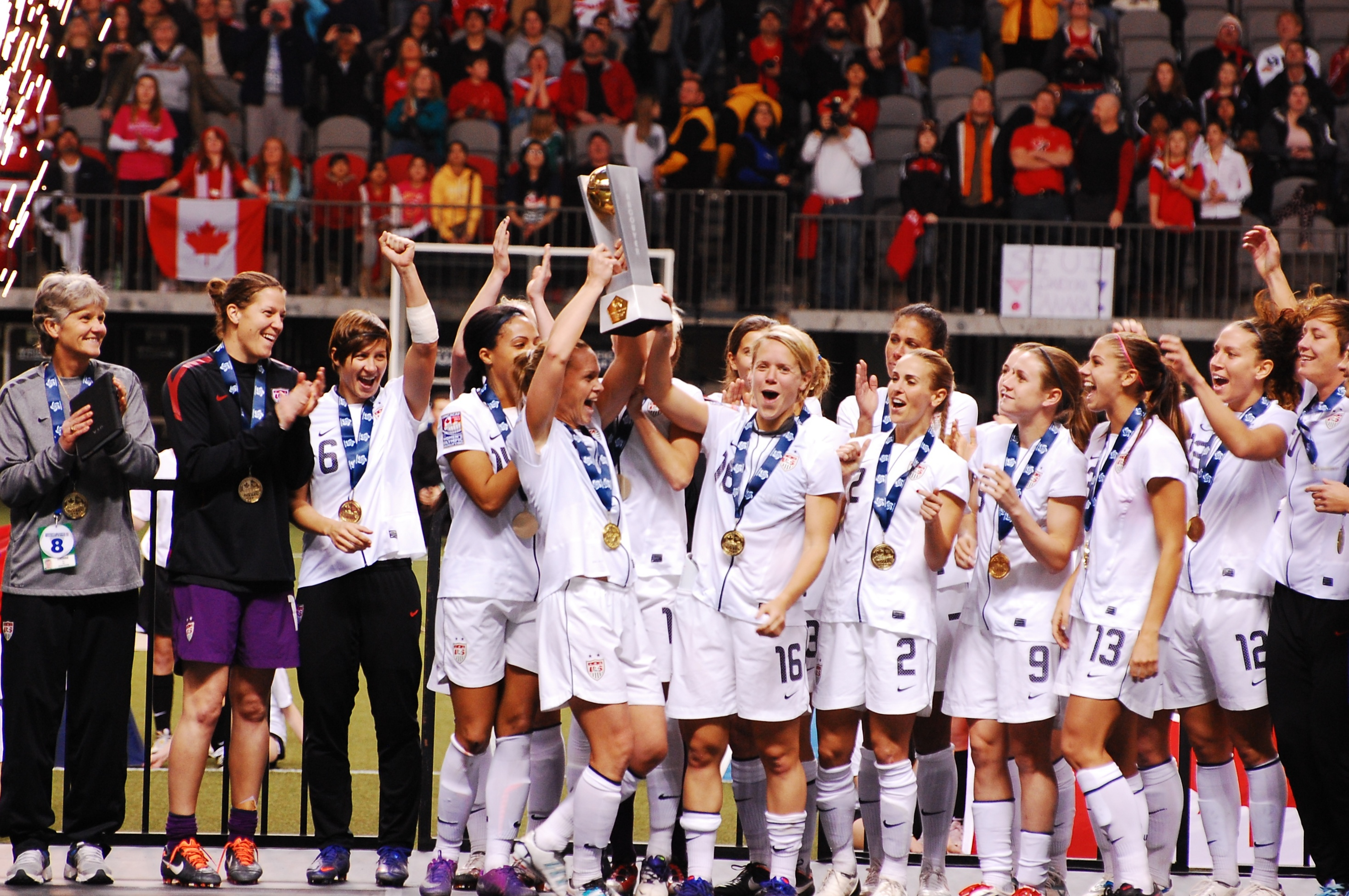 The following is the author's description of the photograph quoted directly from the photograph's Flickr page. " The USWNT Celebrates their First Place win as Captain Christie Ramponeraises the trophy at the 2012 CONCACAF Olympic Qualifiers. "